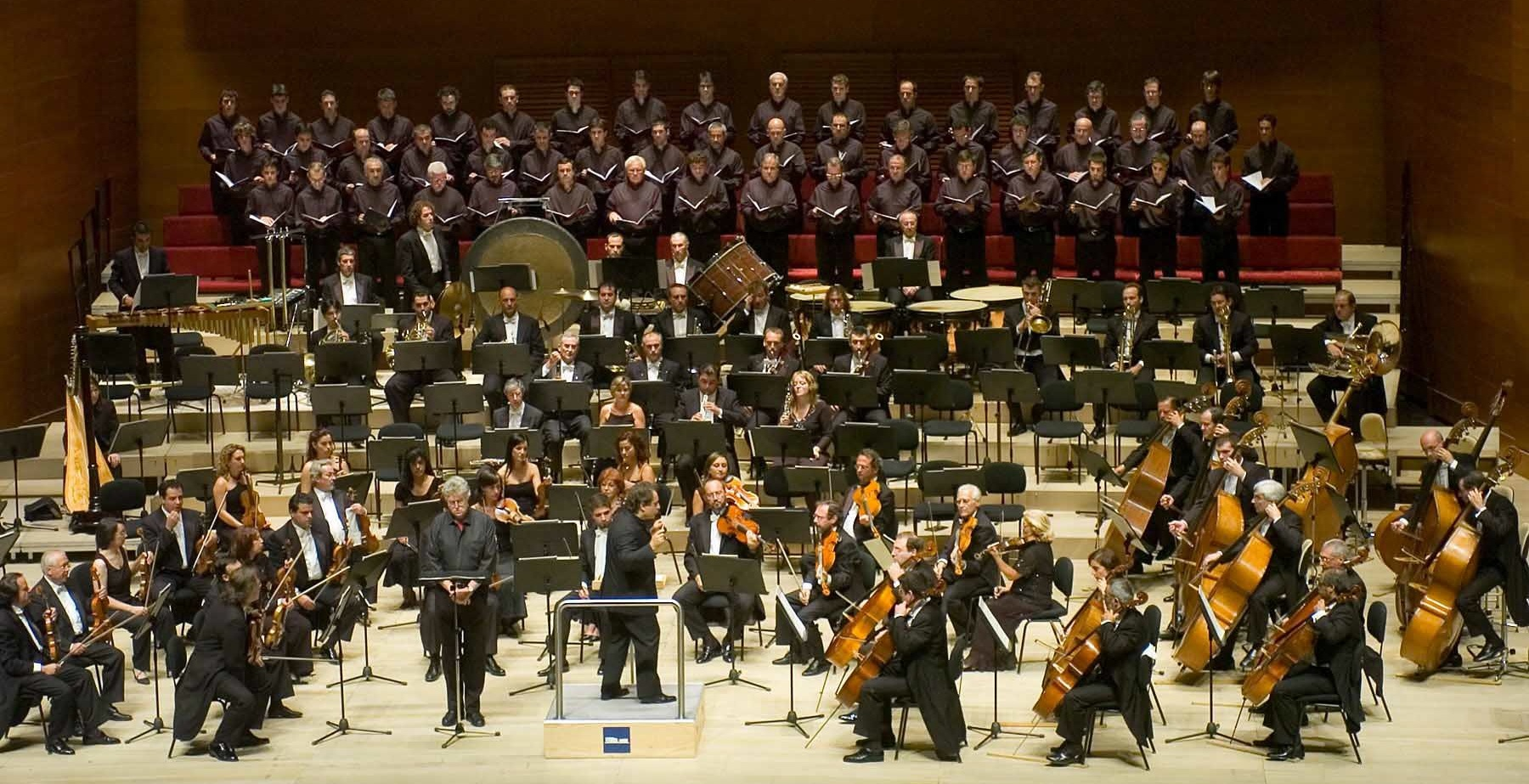 Foto Concierto de Un Superviviente en Varsovia